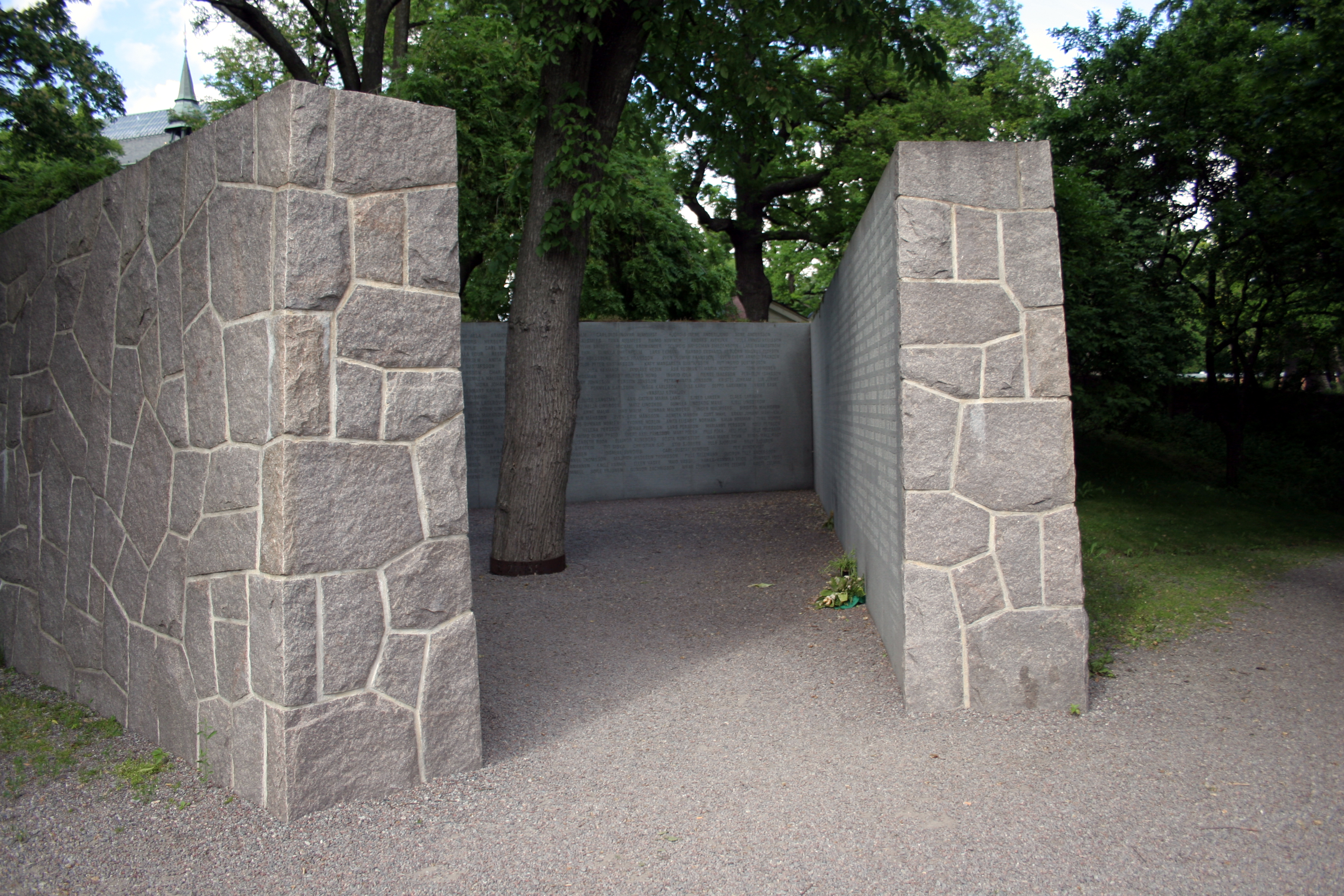 M/S Estonia memorial in Stockholm, Sweden. The memorial is situated near the Wasa-museum, nest to Galärkyrkogården.